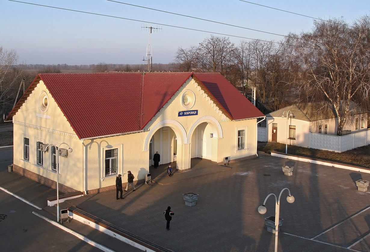 Bobrovytsia railway station, South-Western Railway, Ukraine